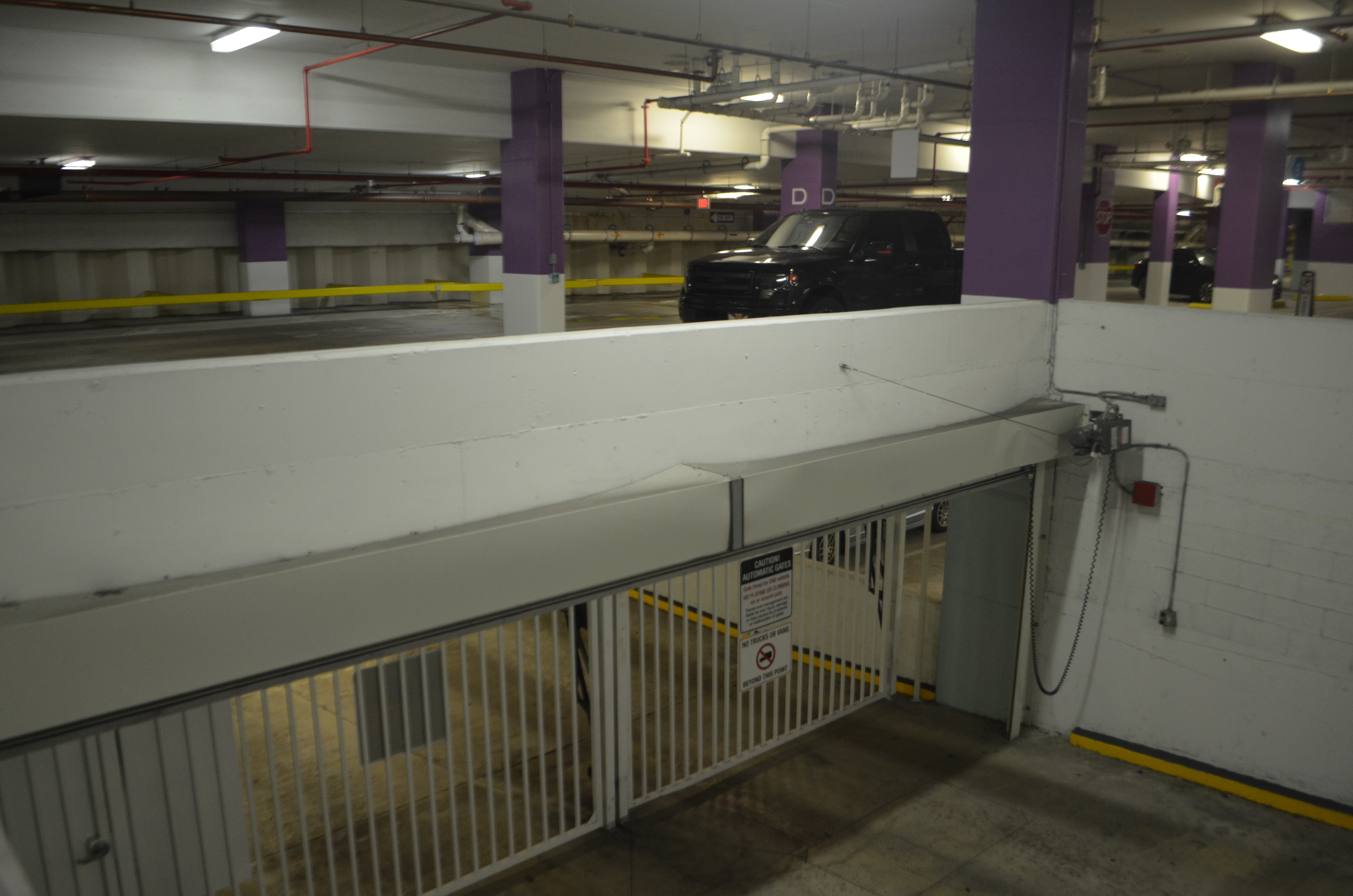 Transportation in South Florida#Underground parking